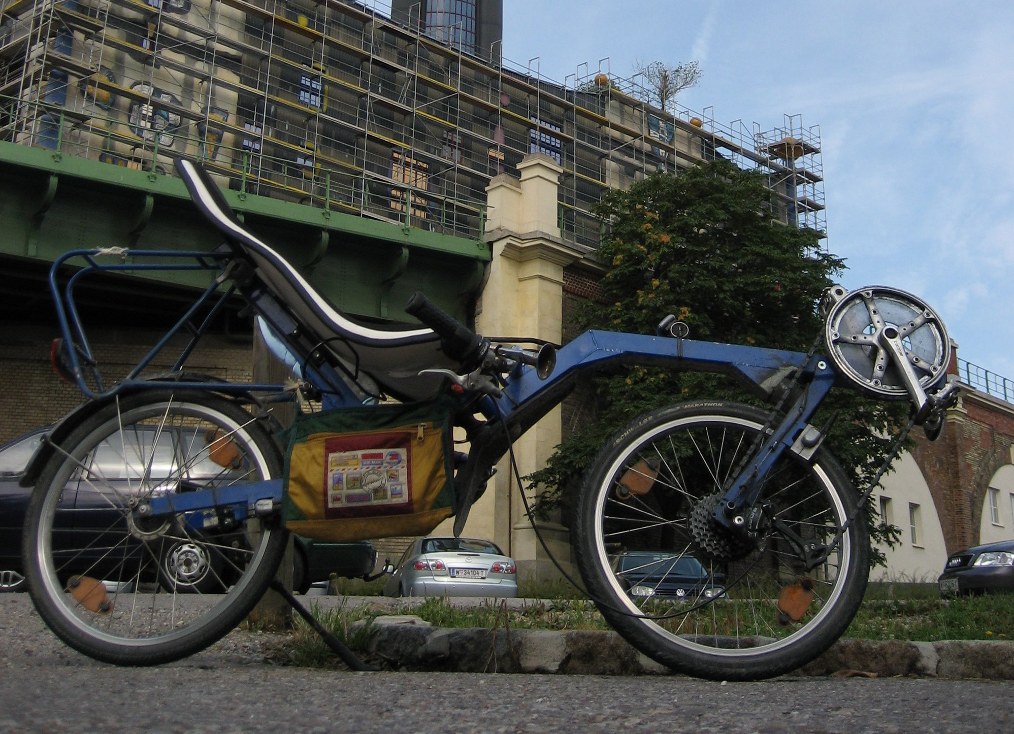 Flevobike recumbent bicycle